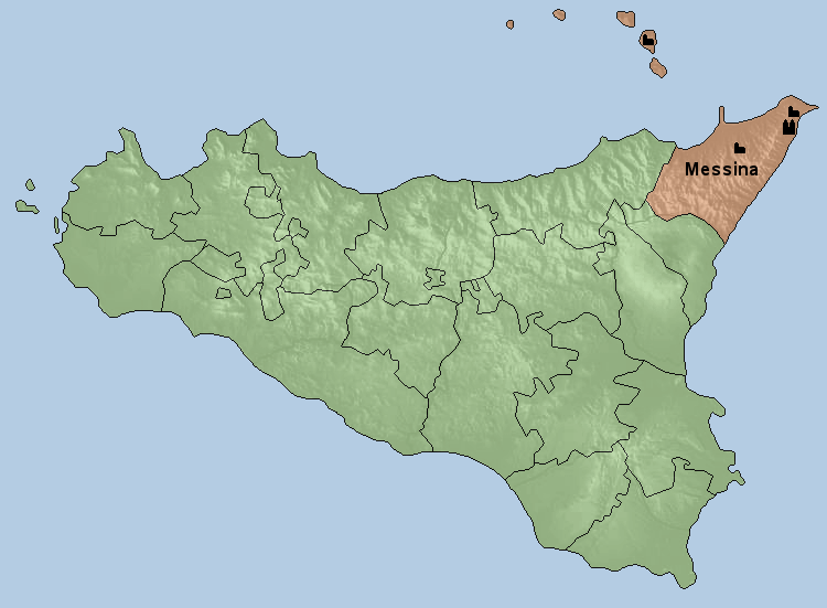 Map of the archdiocese of Messina-Lipari-Santa Lucia del Mela (^^: Cathedral of a metropolitan diocese, –^: Cathedral of a suffragan diocese, ^–: Co-cathedral)